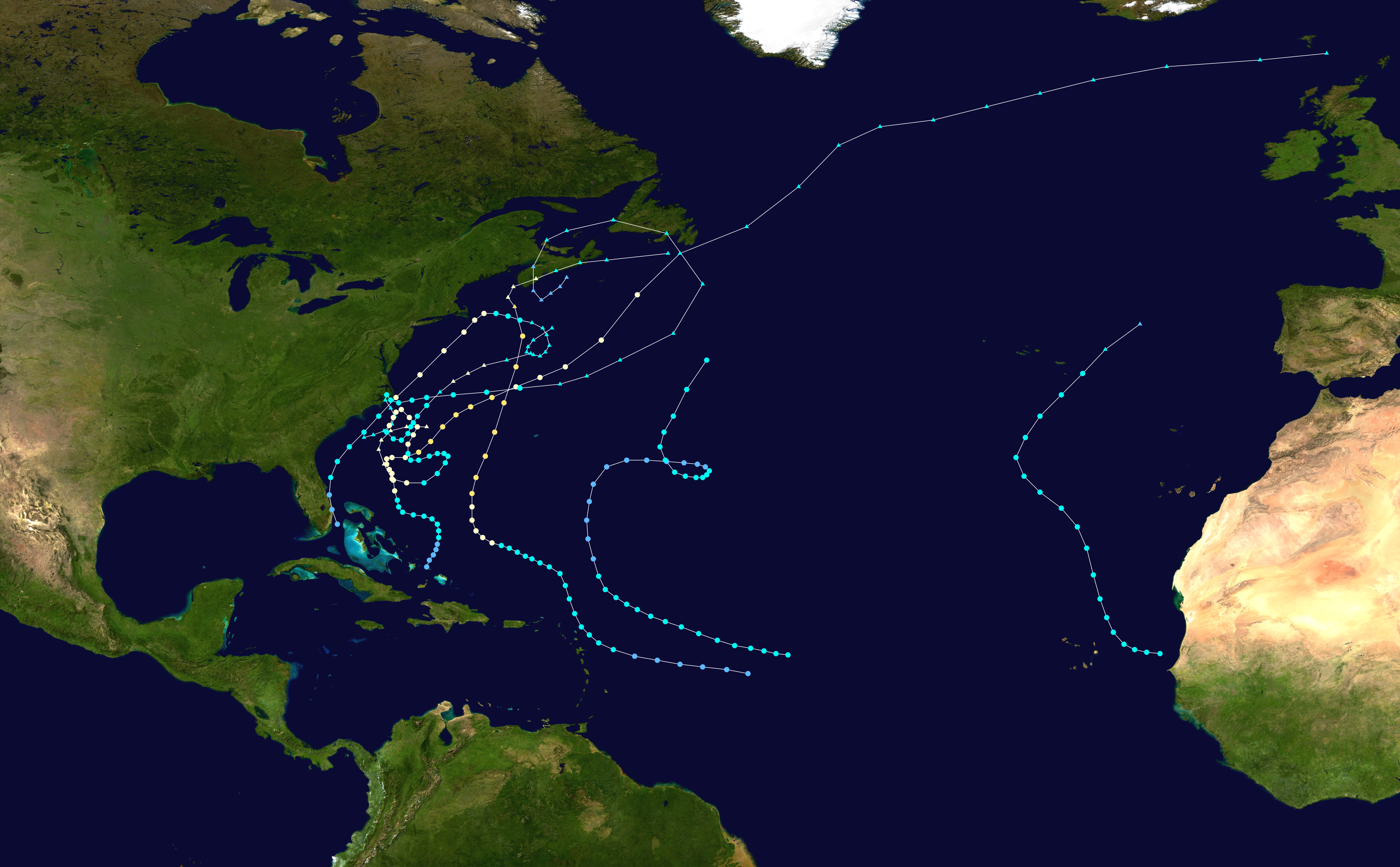 This map shows the tracks of all tropical cyclones in the 1962 Atlantic hurricane season. The points show the location of each storm at 6-hour intervals. The colour represents the storm's maximum sustained wind speeds as classified in the Saffir-Simpson Hurricane Scale (see below), and the shape of the data points represent the type of the storm. Saffir–Simpson scale Tropical depression≤38 mph≤62 km/h Category 3111–129 mph178–208 km/h Tropical storm39–73 mph63–118 km/h Category 4130–156 mph209–251 km/h Category 174–95 mph119–153 km/h Category 5≥157 mph≥252 km/h Category 296–110 mph154–177 km/h Unknown Storm type Tropical cyclone Subtropical cyclone Extratropical cyclone / Remnant low / Tropical disturbance / Monsoon depression